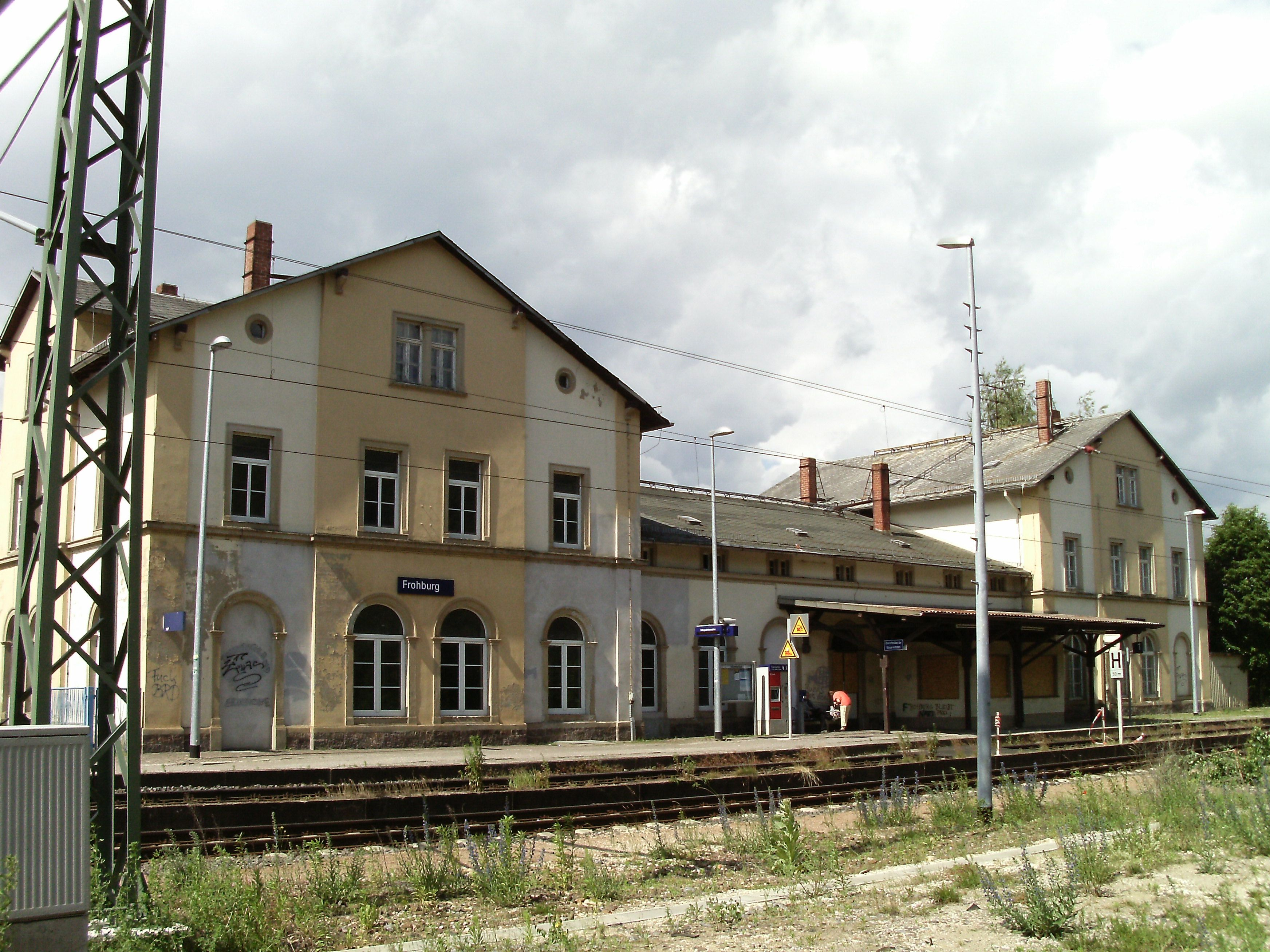 Frohburg train station (Leipzig district, Saxony)